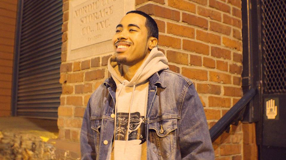 Ricky Brown